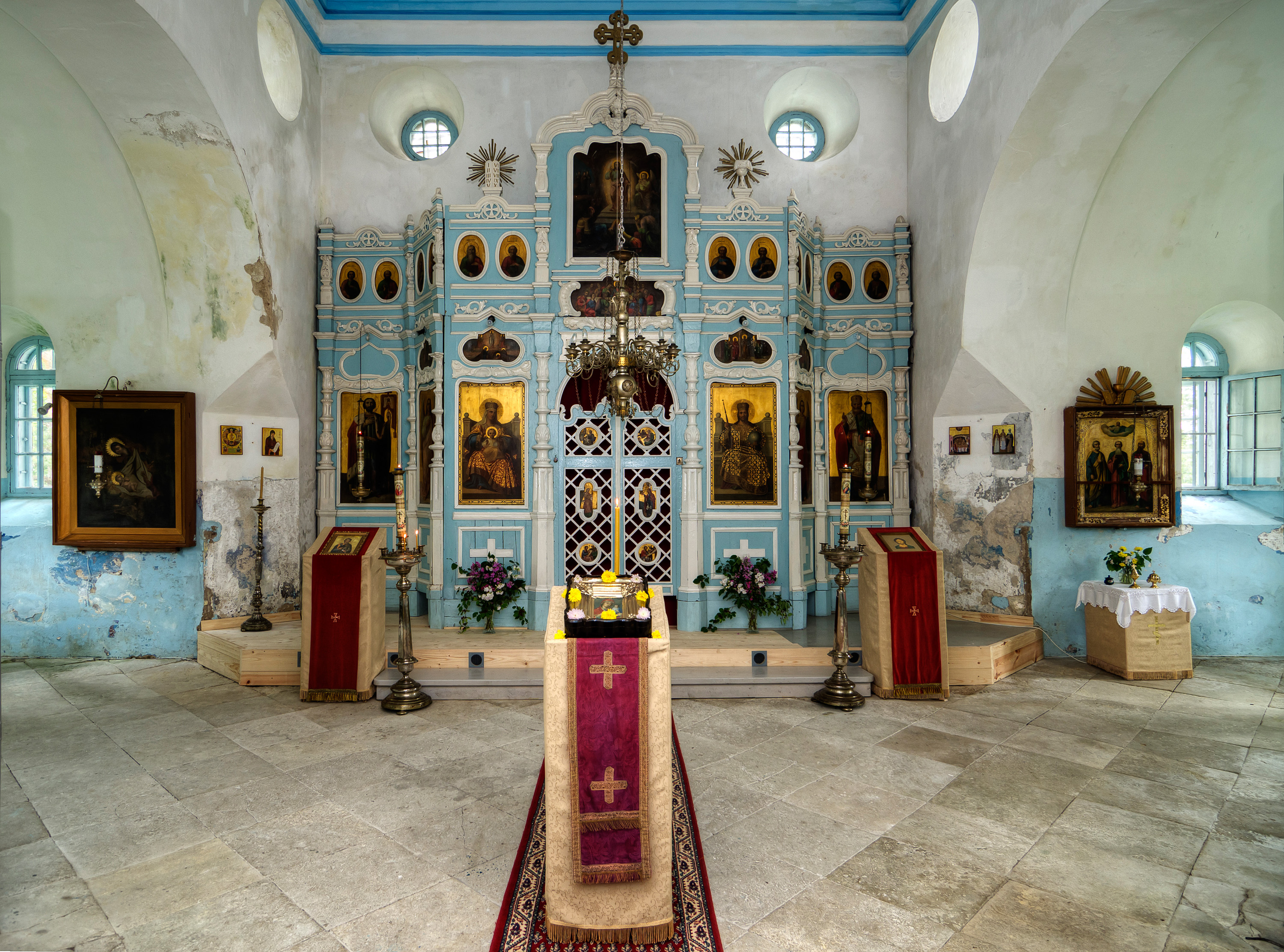 Interior of Estonian Orthodox Church Reomäe Andrew the Apostle Church, Reo, Pihtla Parish, Saare County, Western Estonia.